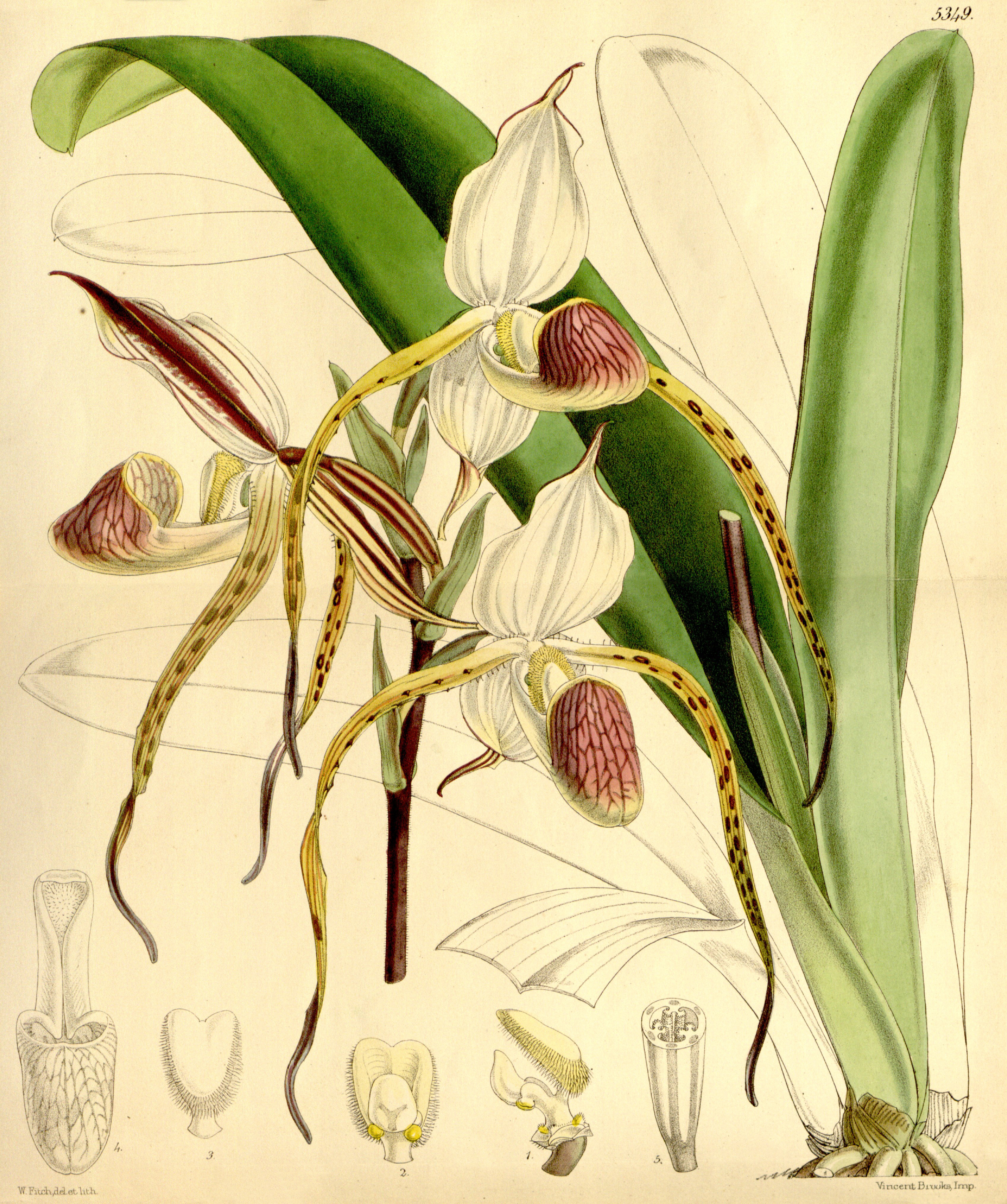 Illustration of Paphiopedilum stonei (as syn. Cypripedium stonei)